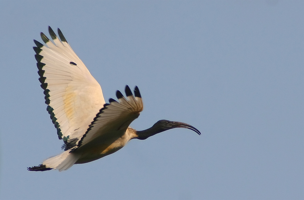 African Sacred Ibis (Threskiornis aethiopicus) flying at Durban Botanic Gardens, Durban, South Africa.